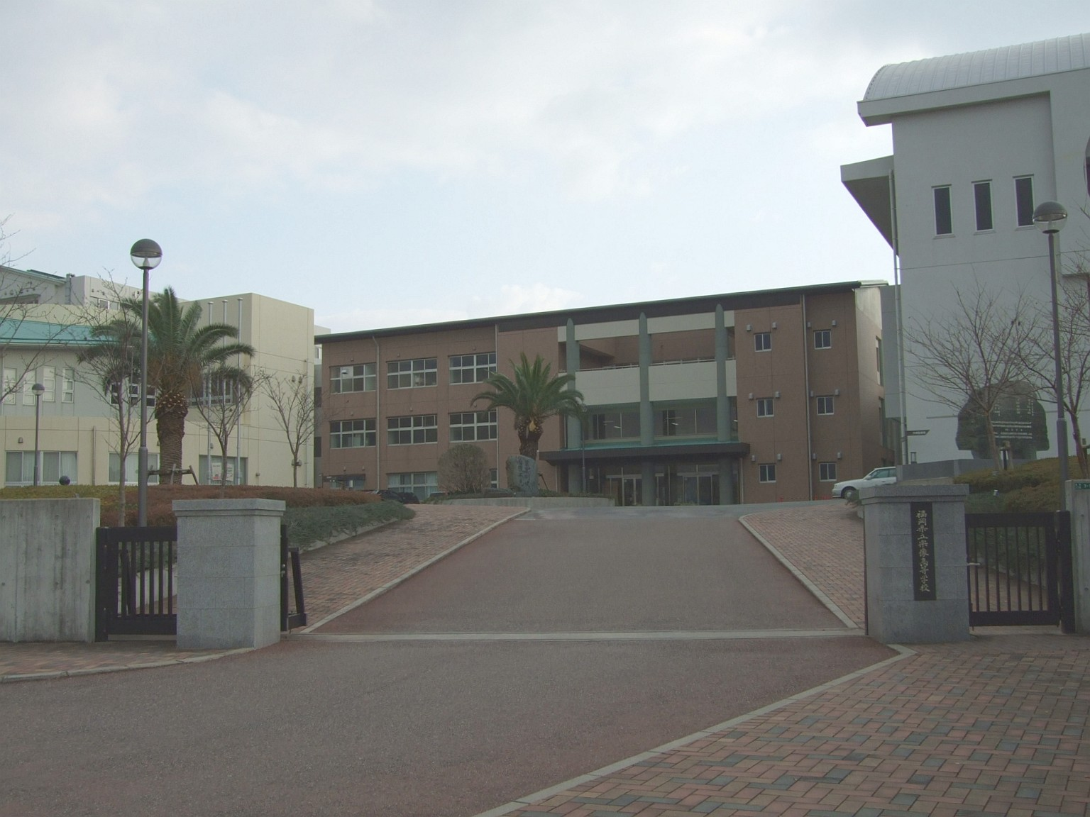 Munakata High School